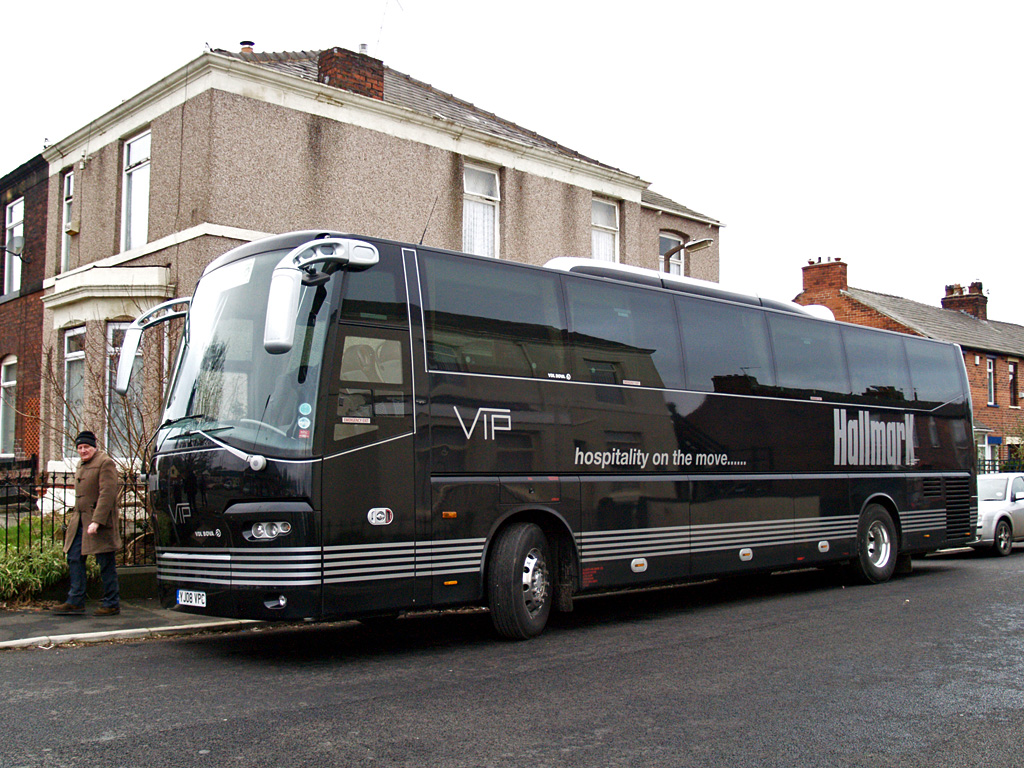 Flights Hallmark Limited YJ08 VPC, a VDL Bova HD12-340 built 2008 with a VDL Bova C49Ft body on Horne Street in Bury while acting as the Notts County football club team coach. Saturday 21st February 2009